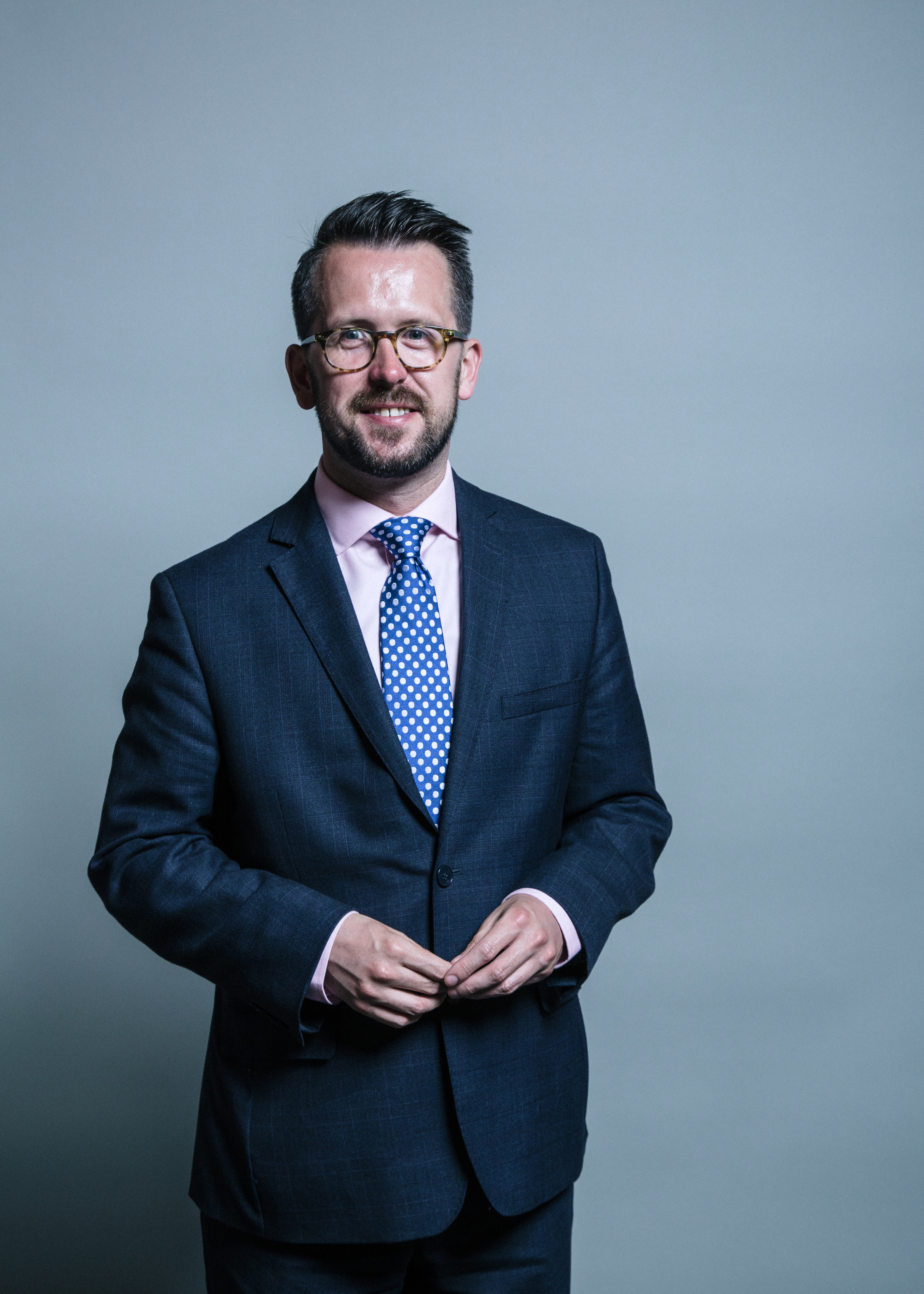 Official portrait of Stewart Malcolm McDonald